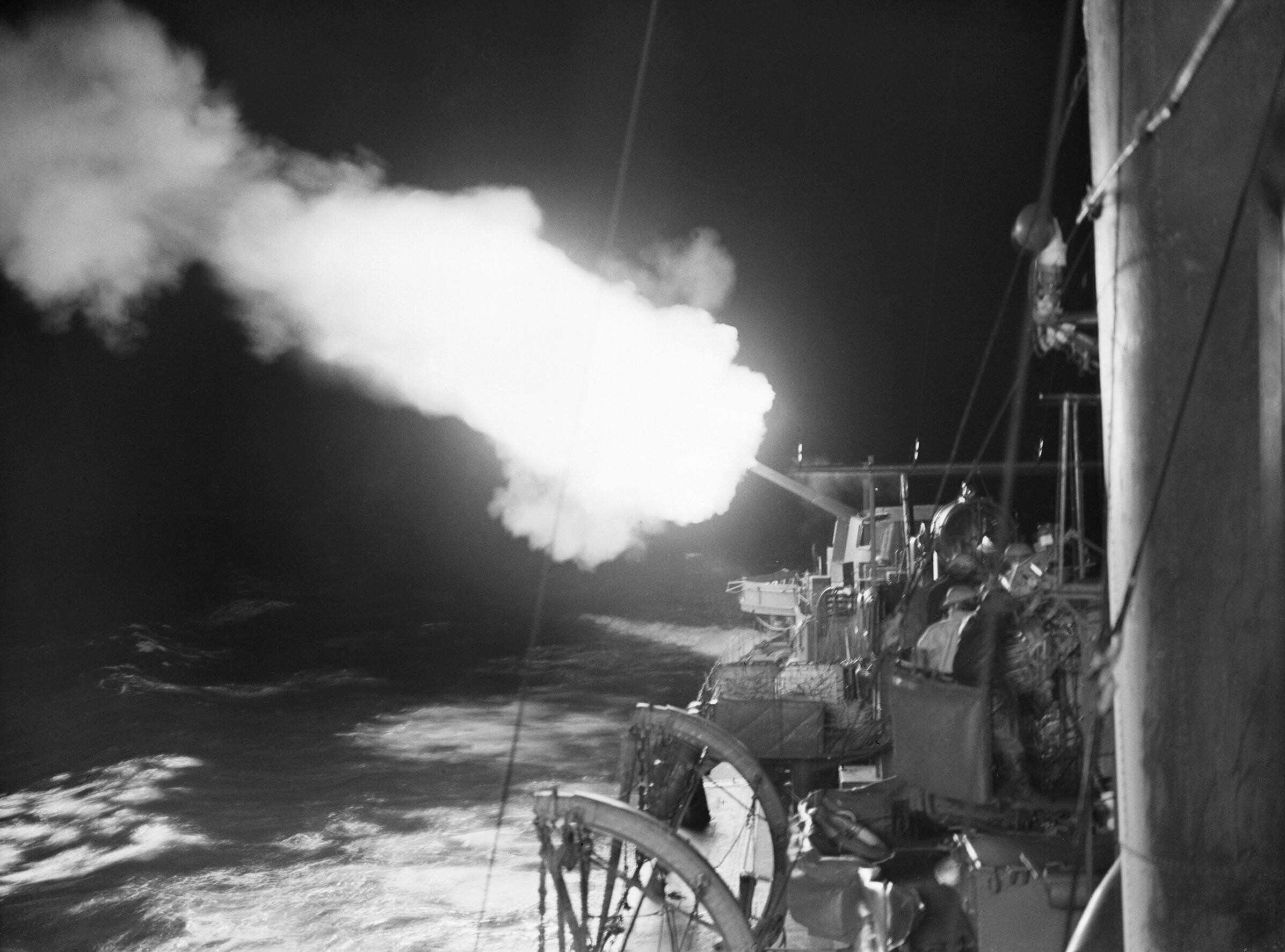 A 4.7-inch gun onboard HMS JUPITER firing on enemy shipping in the port of Cherbourg, on the night of 10/11 October 1940. One of the 4.7 inch guns on board HMS JUPITER firing on the night of the 10 - 11 October 1940, when heavy and light forces of the Royal Navy carried out a bombardment of the enemy occupied port of Cherbourg, where a concentration of enemy shipping had been detected.